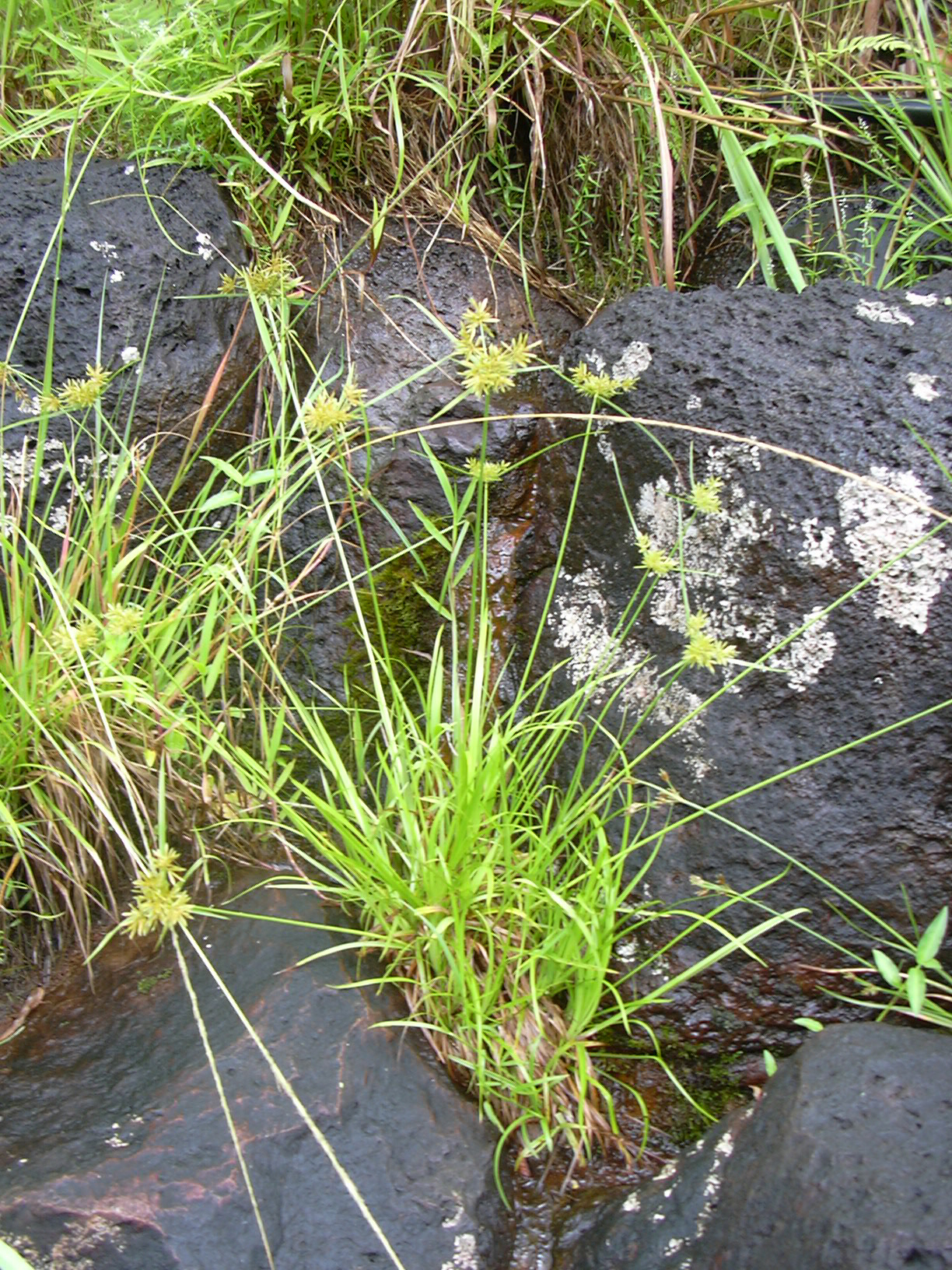 Cyperus haspan (habit). Location: Maui, Kopiliula